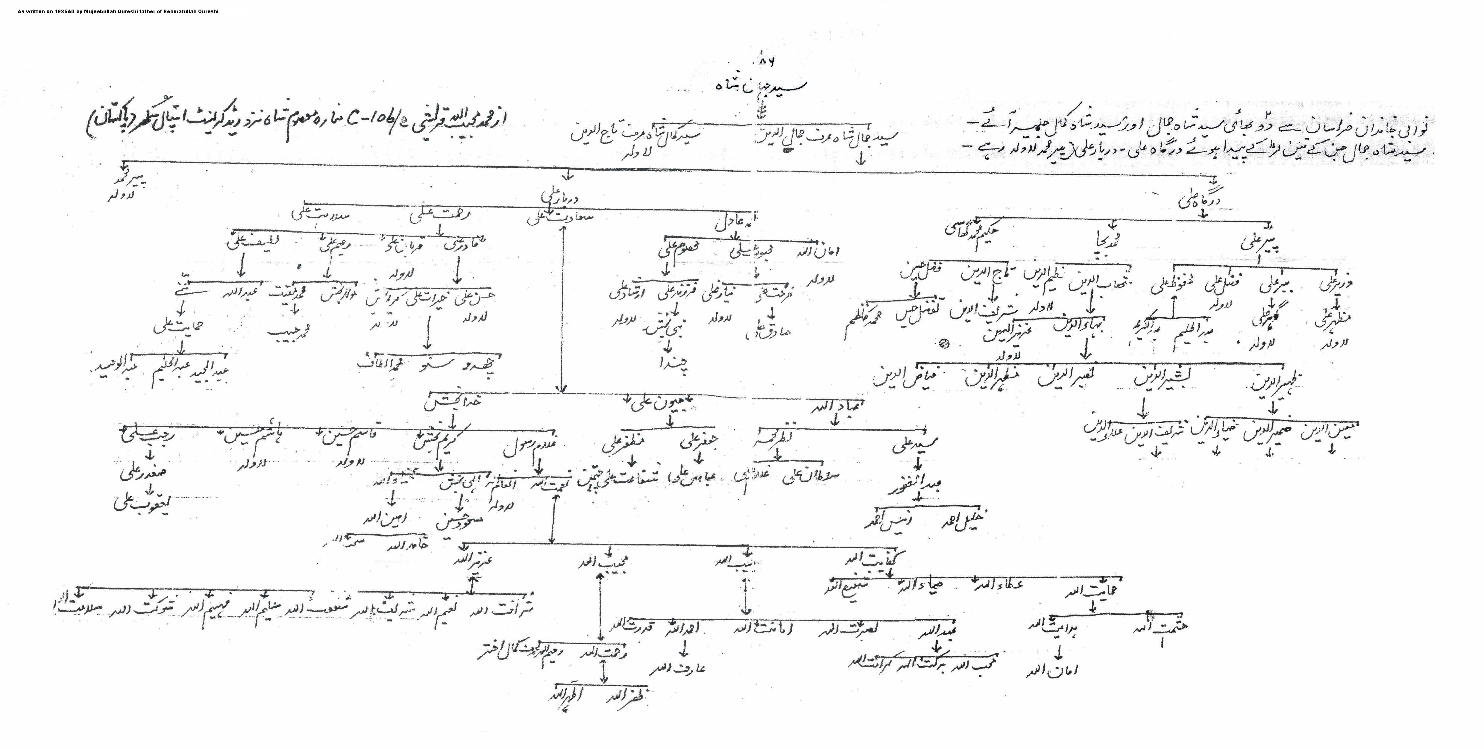 Family Tree of Prof Muhammad Rehmatullah Farrukhabadi